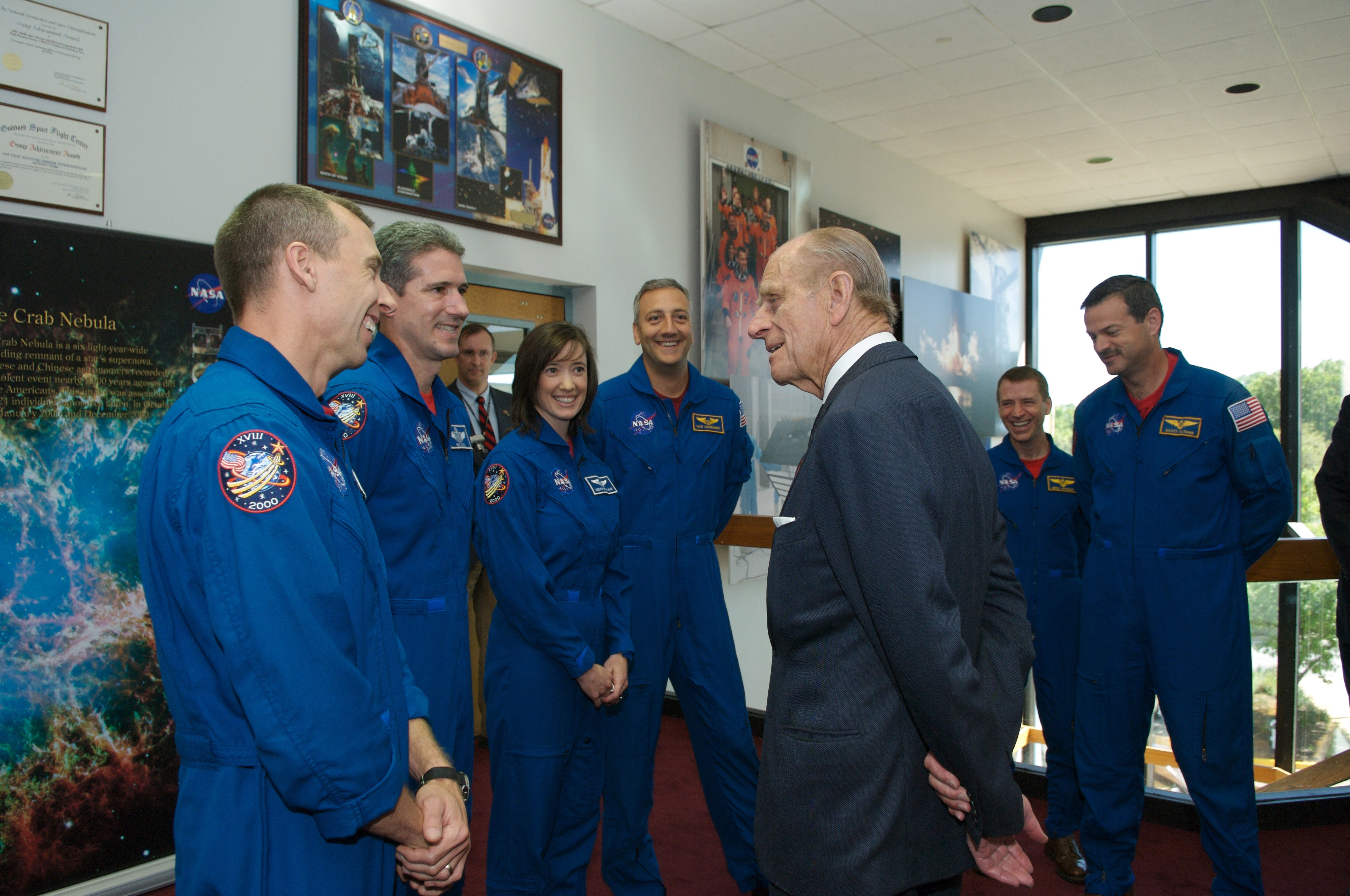 Prince Philip greets astronauts from STS-125 (L to R) Andrew J Feustel, Michael T Goode, K. Megan McArthur, Michael J. Massimino, Gregory C. Johnson, and Commander Scott D. Altman.